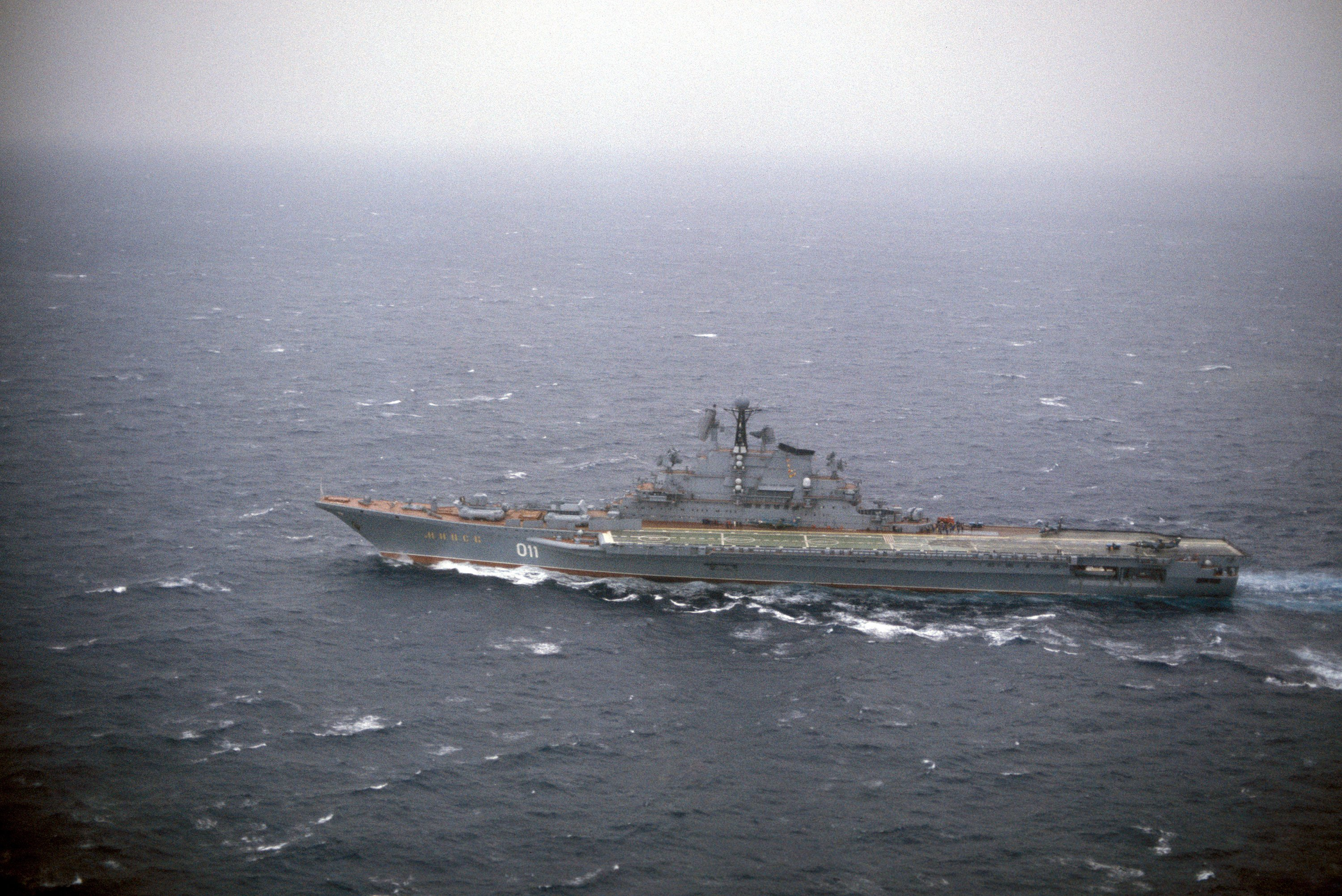 An aerial port beam view of the Soviet Kiev class aircraft carrier Minsk underway.